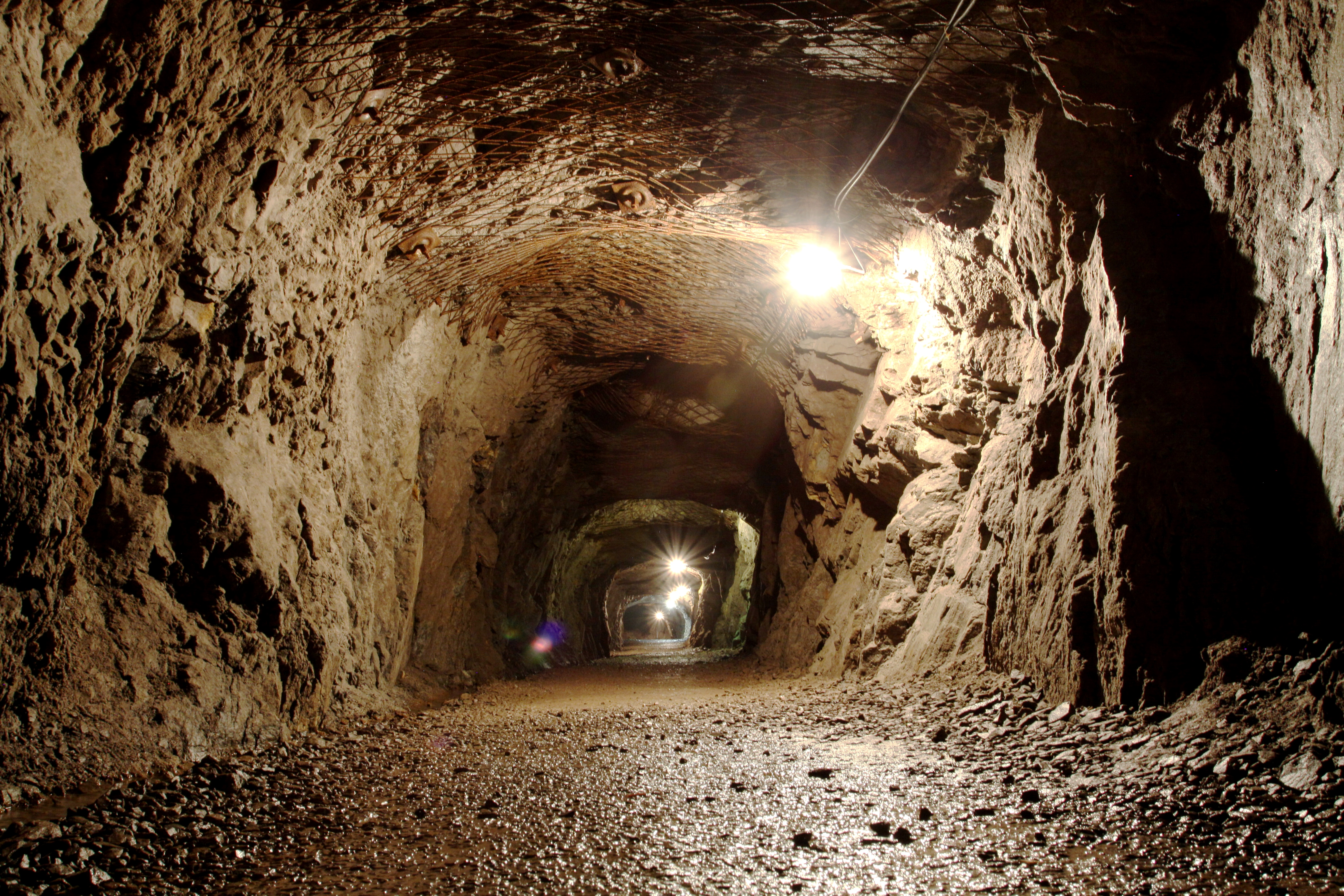 Image from the Complex Osówka, part of underground town build by Nazi Germany during the project Riese. The complex is located near the villages of Kolce and Sierpnica, inside Osówka Mountain, now in Poland.